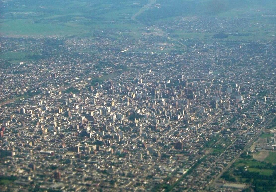 Caption: Aerial view of San Miguel de Tucuman